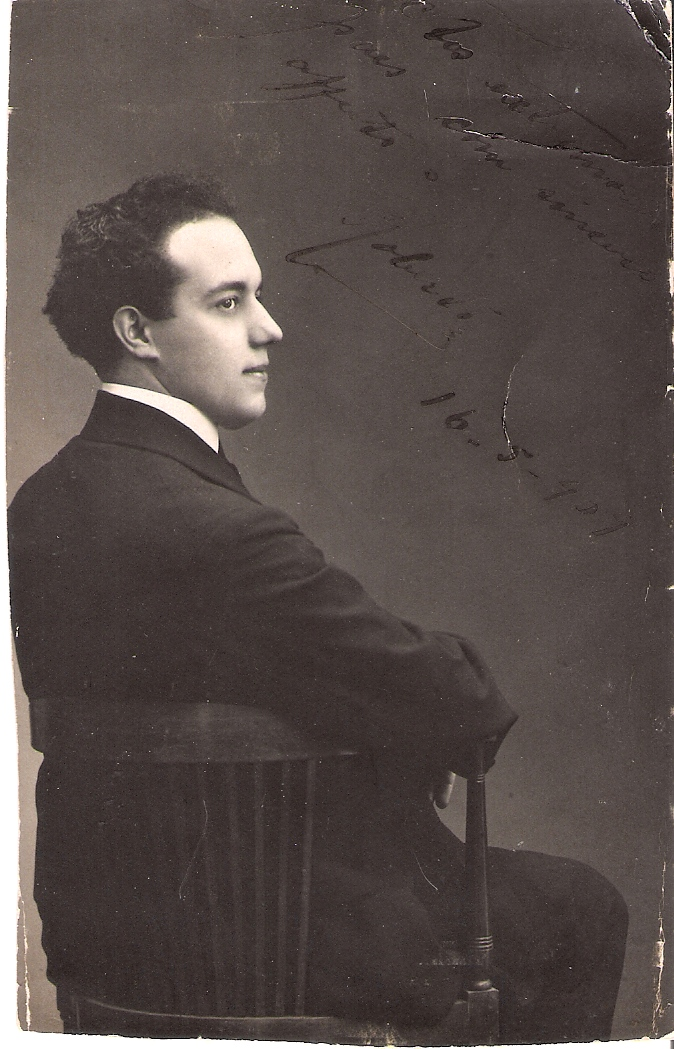 Roberto Viglione (Milan, May 16, 1909)